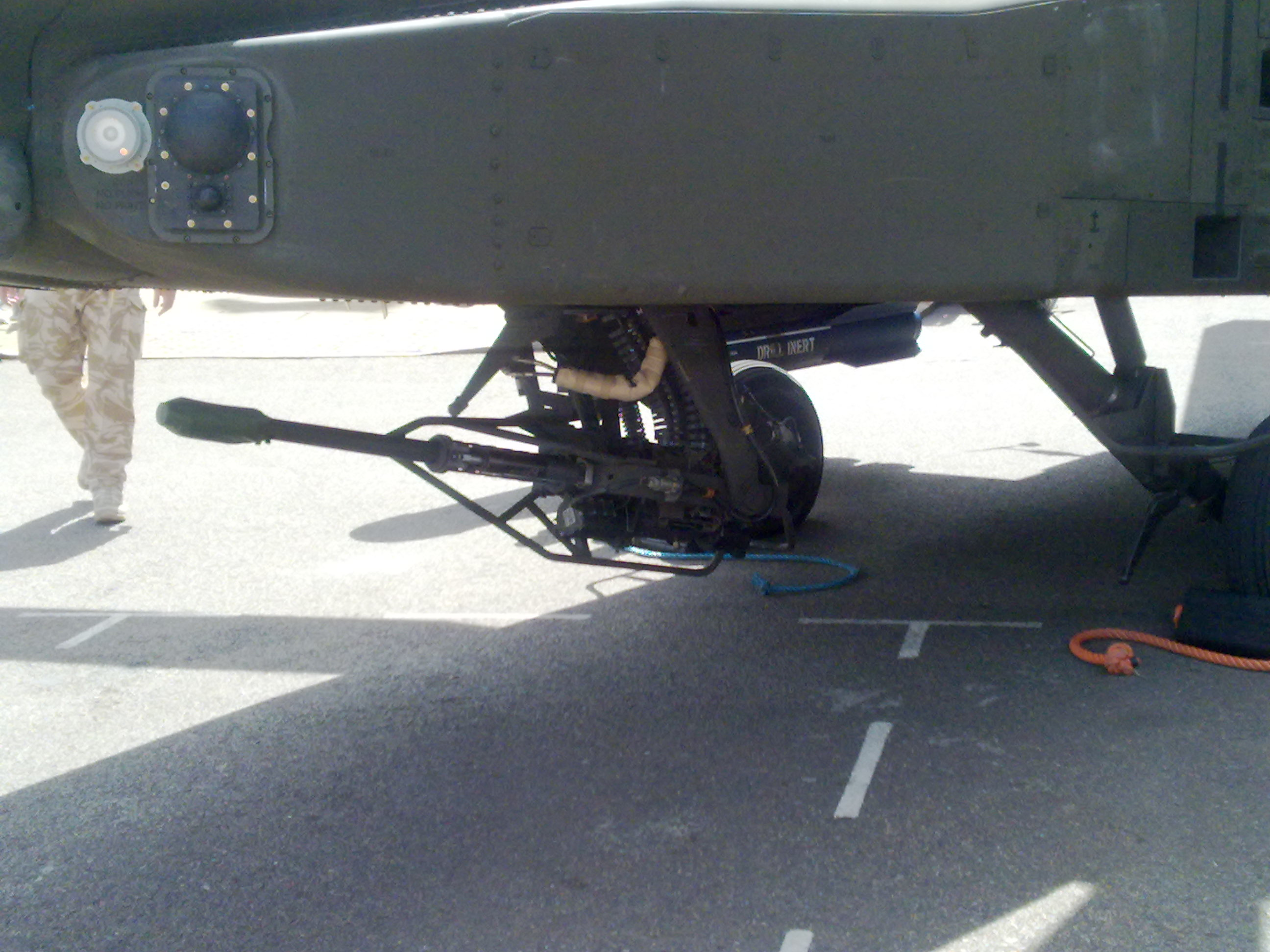 Detail from a British Army Longbow ZJ202 showing detail of comms and main cannon.